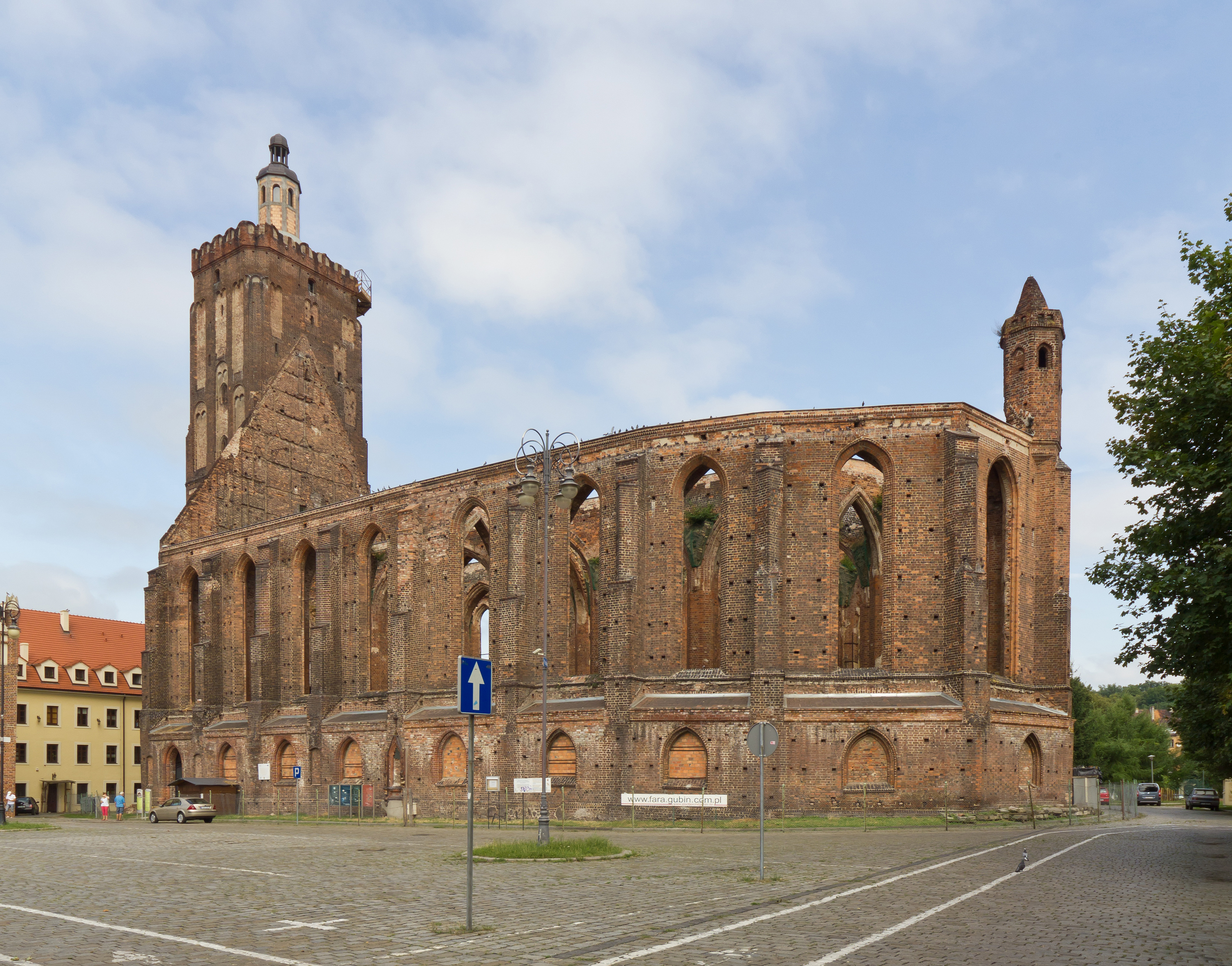 City church ruins in Gubin, Lubusz Voivodeship, Poland